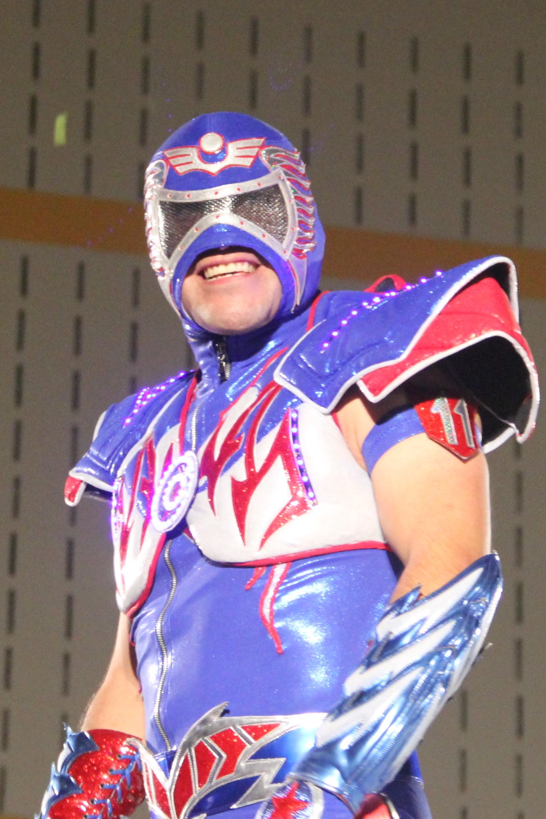 AeroStar at Chikara's King of Trios event in September 2015.